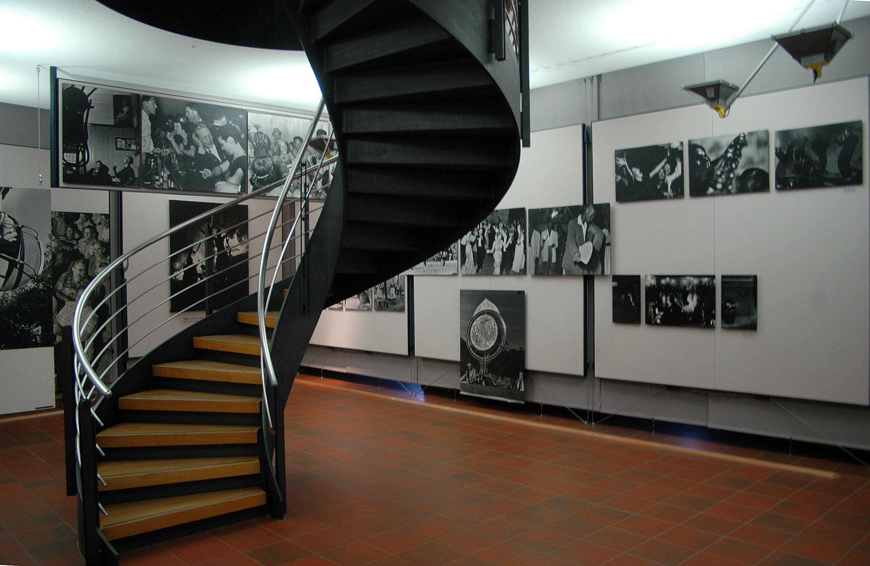 The photography exhibition 'The family of man' at Clervaux castle in Luxembourg.